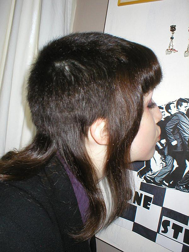 Skingirl, Skinhead Girl